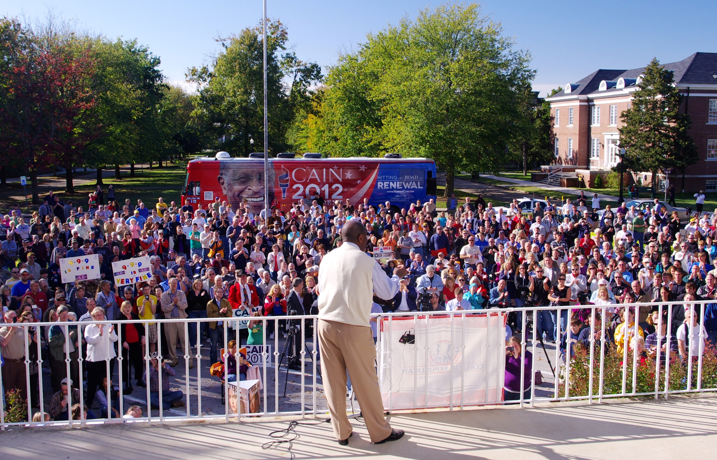 U.S. presidential candidate Herman Cain speaks at a rally at Tennessee Tech University in Cookeville, Tennessee. His campaign tour bus is behind the audience.